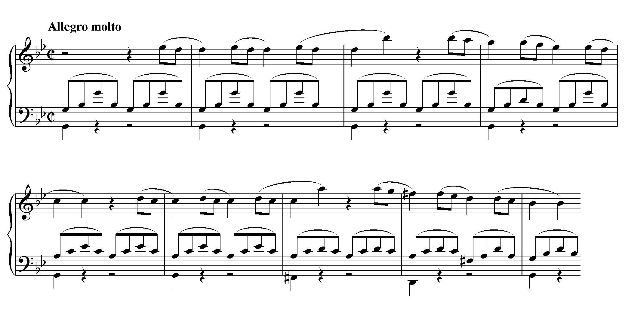 W.A.Mozart, symphony #40, part I, first theme (piano arrangement)